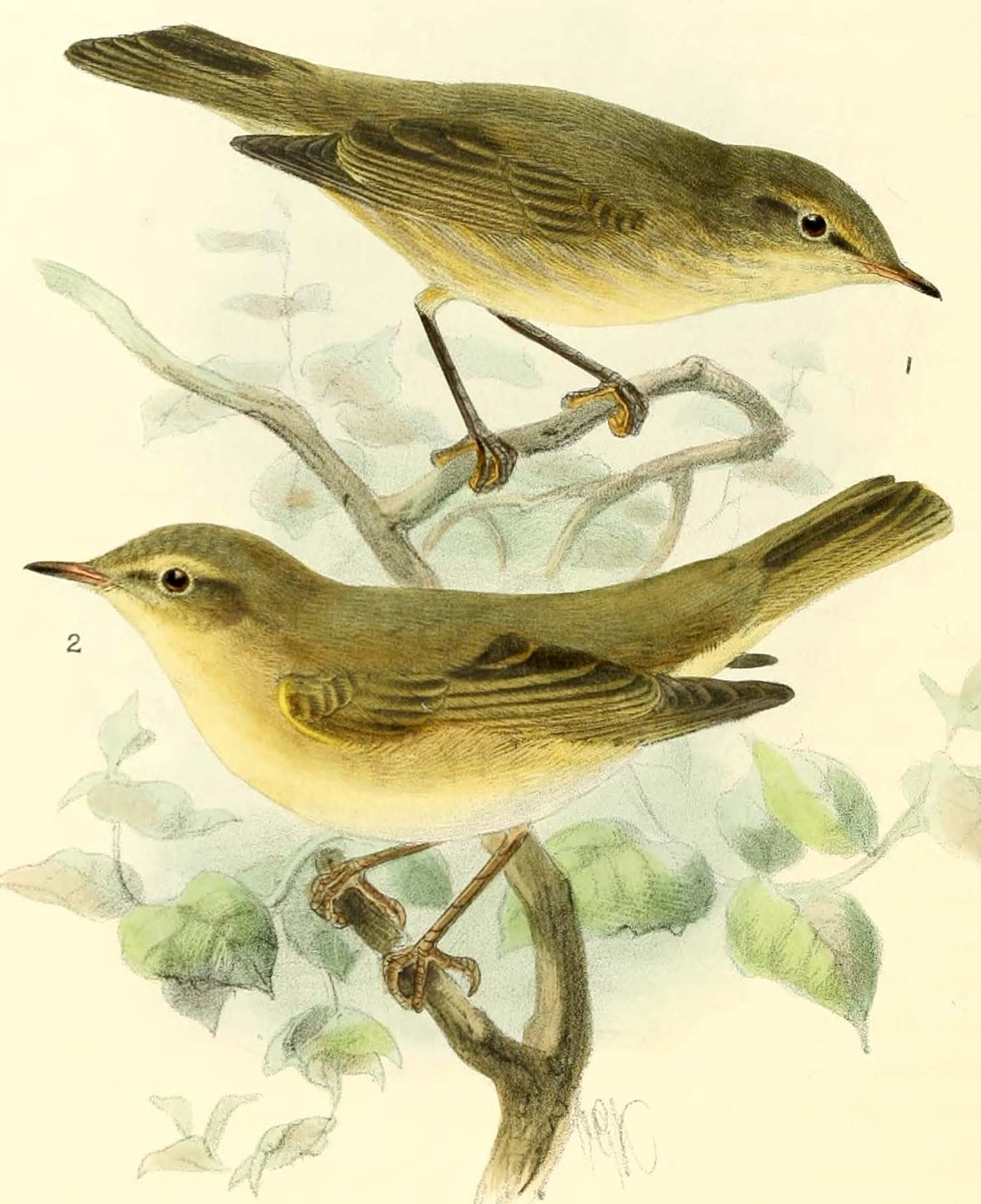 Phylloscopus trochilus + Phylloscopus collybita. Dresser